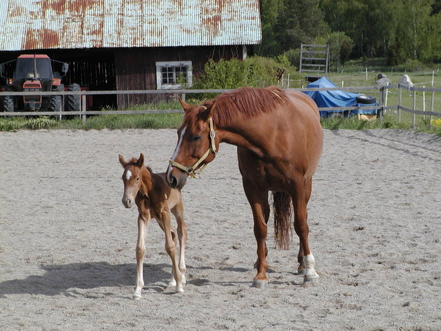 Swedish warmblood mare with a three hours old foal